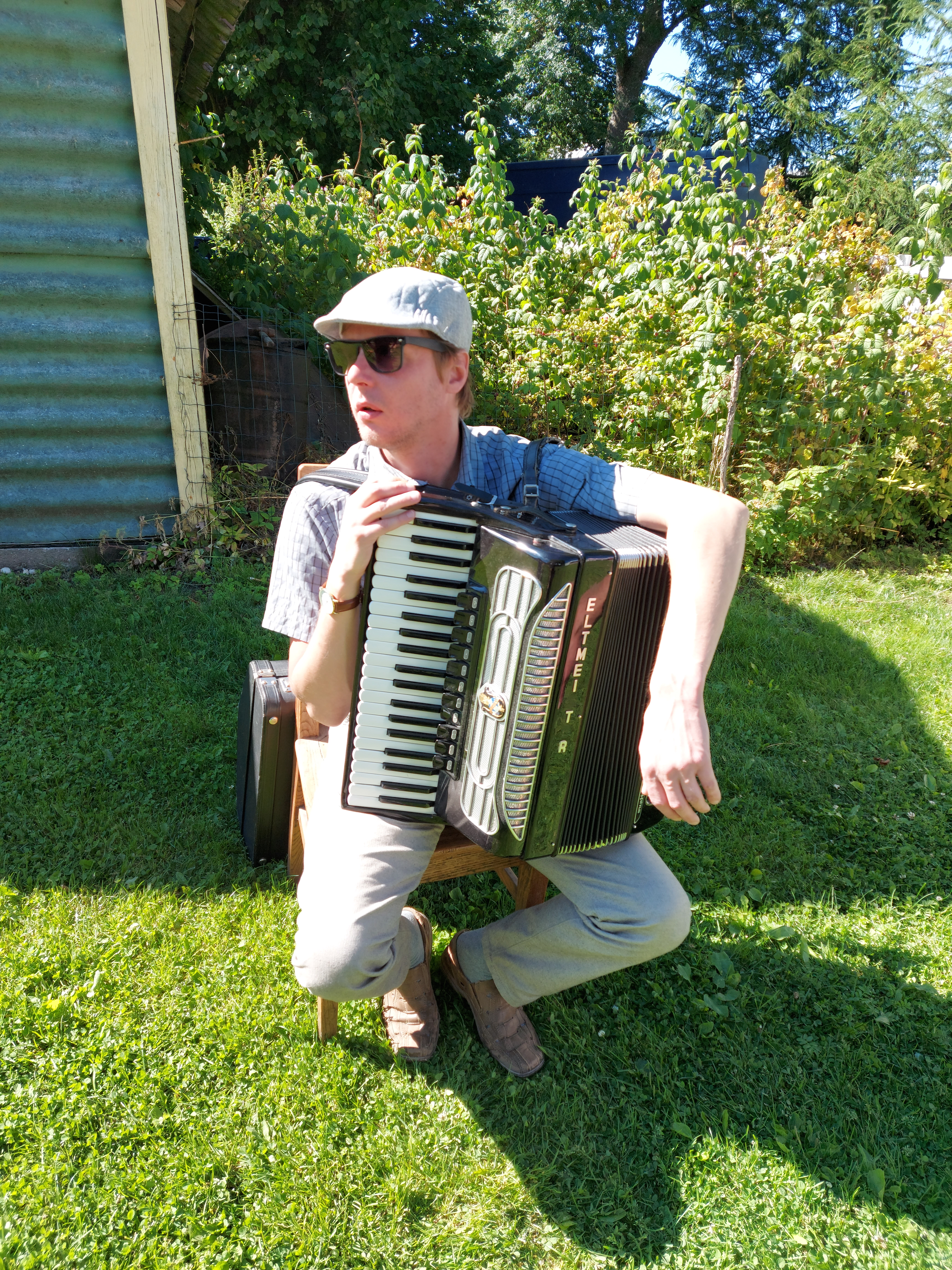 Estonian composer and musician Indrek Liit performing one of his tangos on accordion in Esiküla, Hiiumaa, Estonia, on 1 August 2020, during the Hiiumaa home cafés' day.